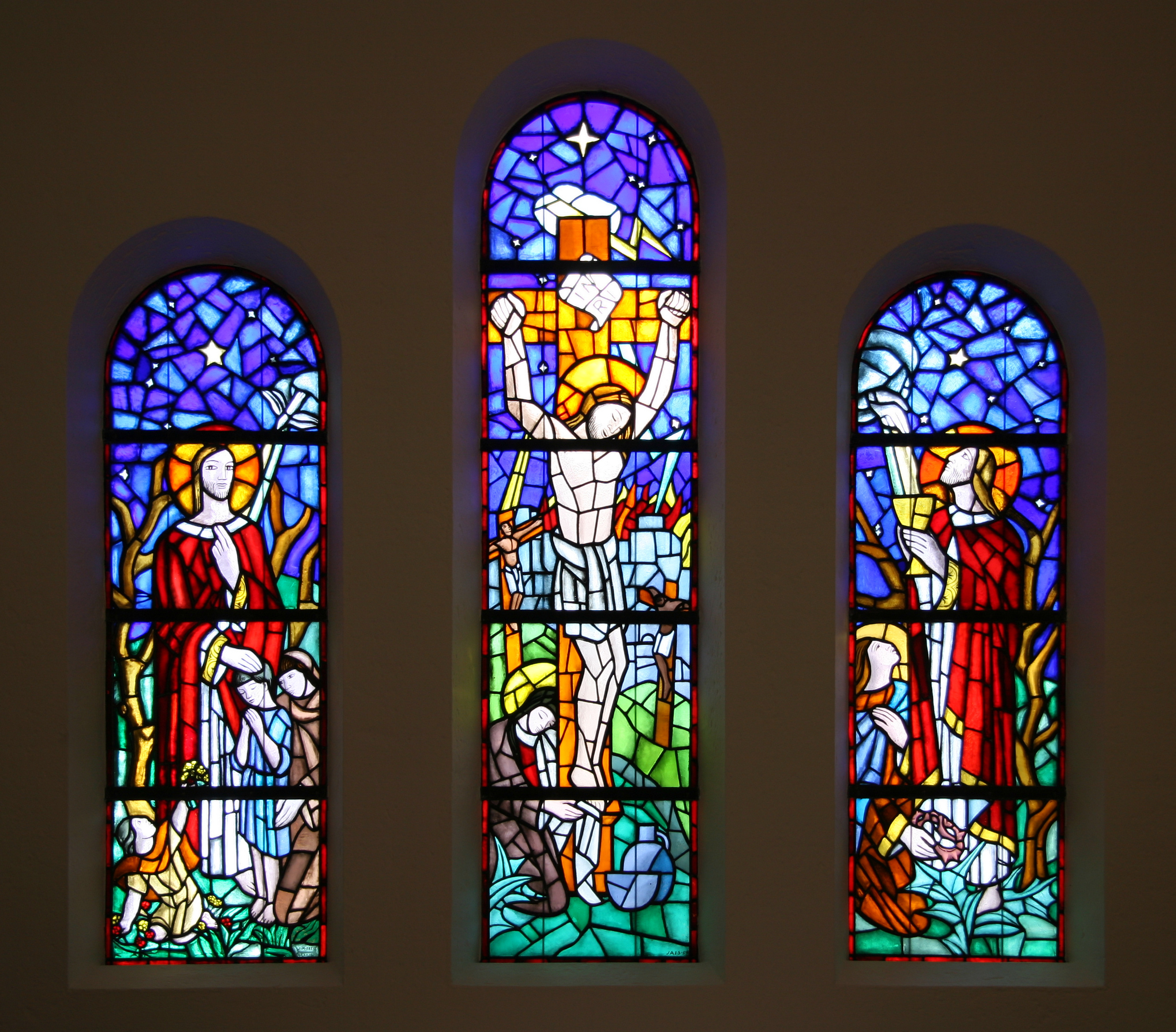 Flintholm Kirke in Copenhagen, Denmark. Glass mosaic window by Jais Nielsen.